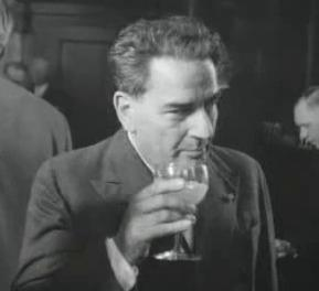 Eduard van Beinum September 3, 1901 – April 13, 1959, Amsterdam) was a Dutch conductor.